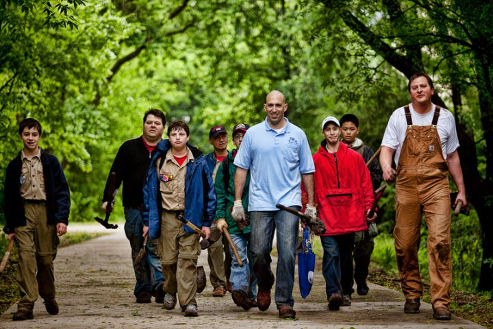 A photo of Council member Amir Omar with volunteers at a "Tree The Town" event in Richardson, Texas.